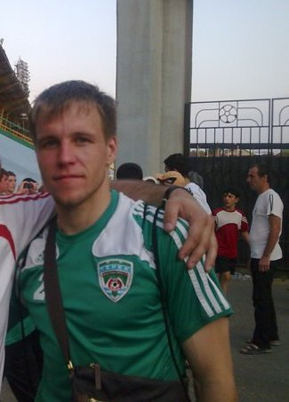 Radoslav Zabavník